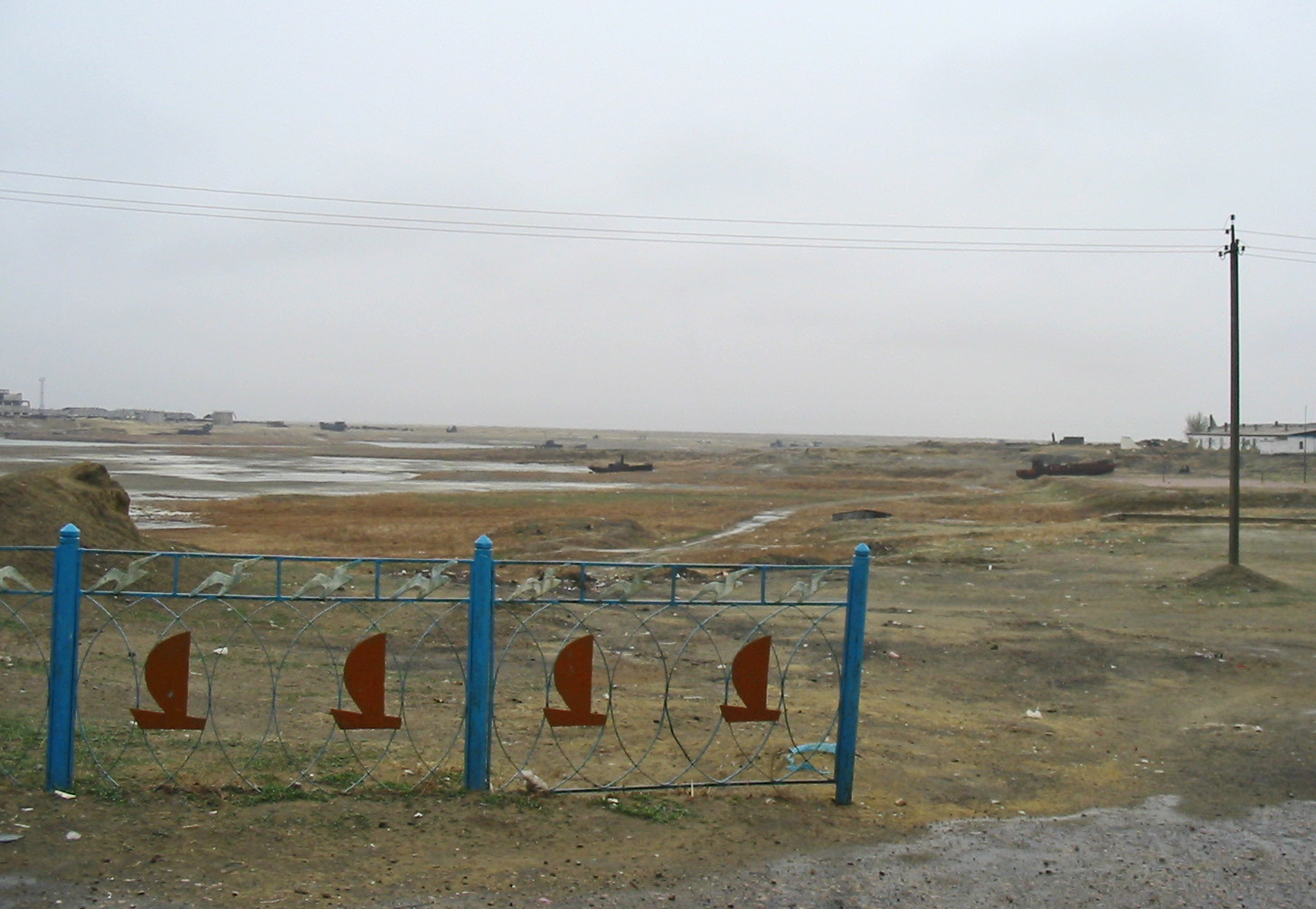 "Waterfront" of Aralsk, Kazakhstan, formerly on the banks of the Aral Sea. Photo taken Spring 2003 by Staecker. No rights reserved.